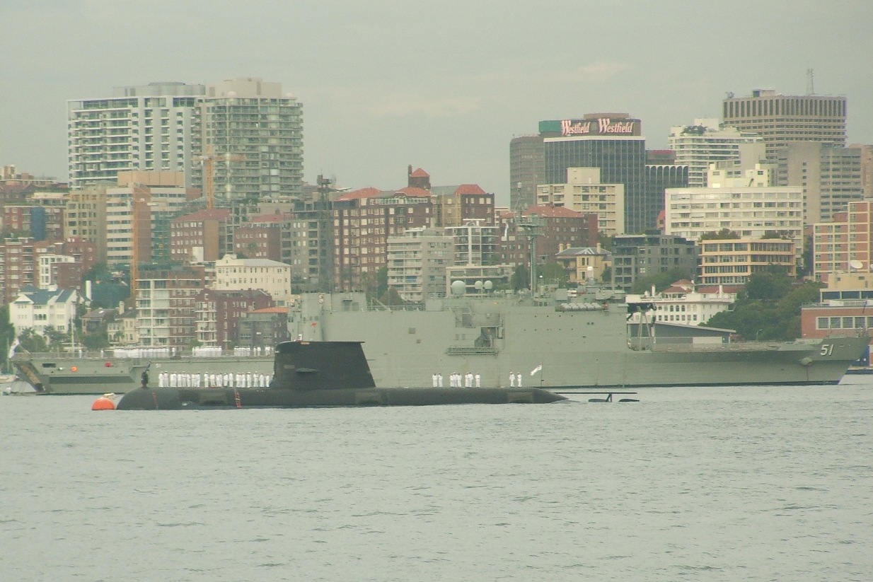 The Collins class submarine HMAS Farncomb and the Kanimbla class amphibious transport HMAS Kanimbla anchored in Sydney Harbour following a ceremonial fleet entry. Cropped from original image